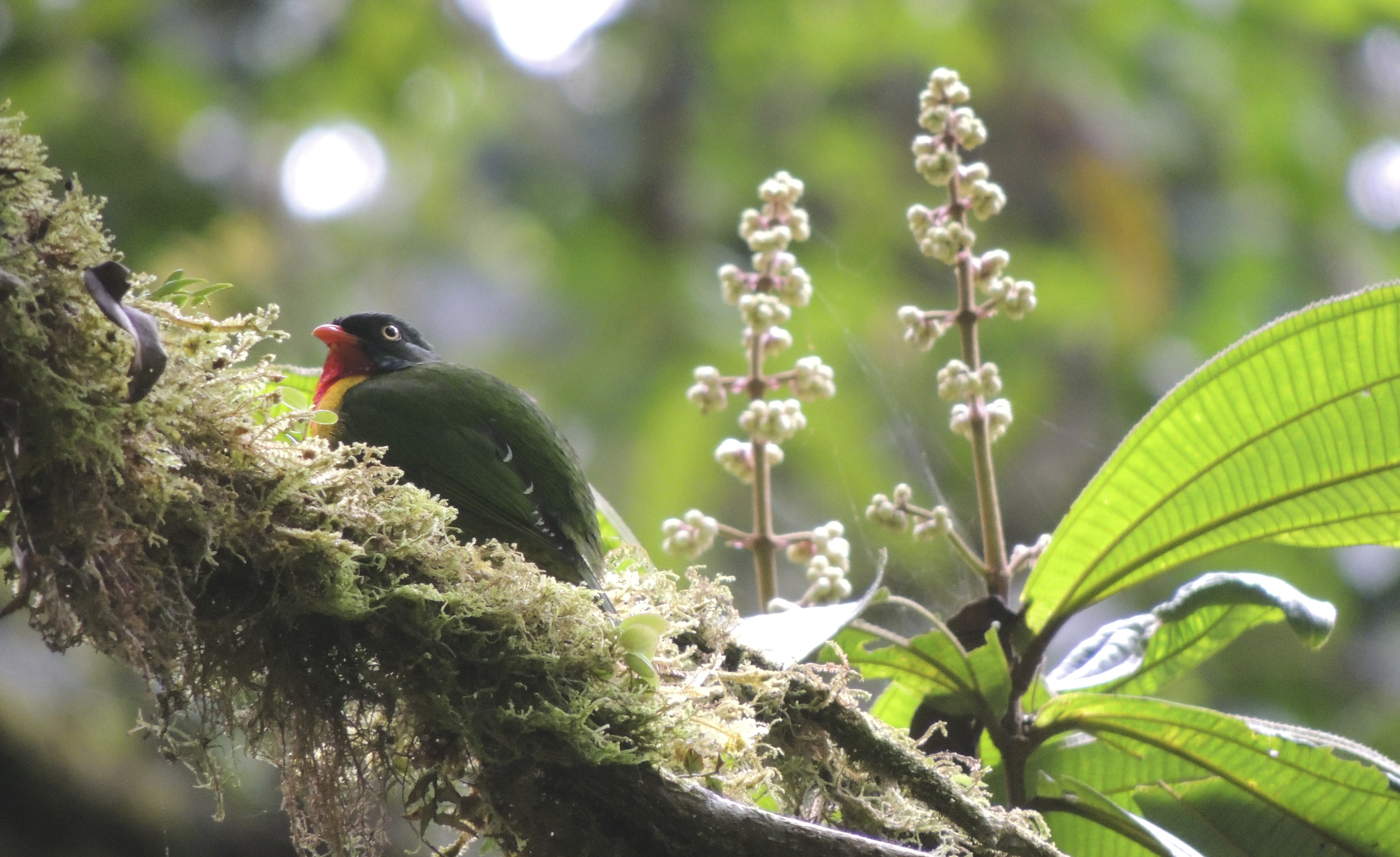 Male Scarlet-breasted Fruiteater, Pipreola frontalis squamipectus along trail at Wildsumaco, Ecuador